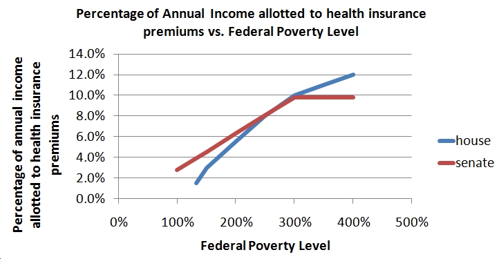 House Bill and Senate Bill subsidies for health insurance premiums.